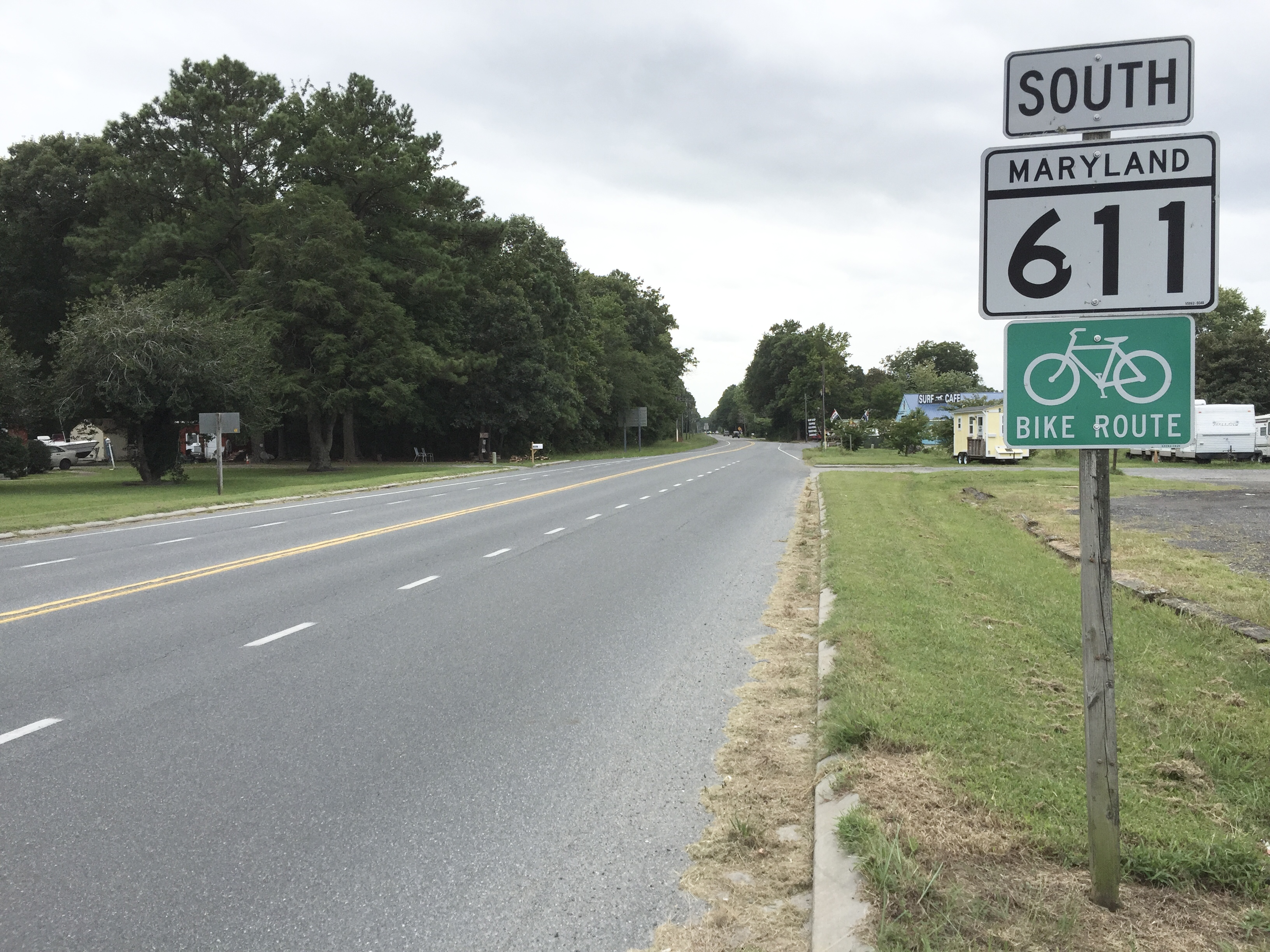 View south along Maryland State Route 611 (Stephen Decatur Highway) at Maryland State Route 376 (Assateague Road) in Lewis Corner, Worcester County, Maryland